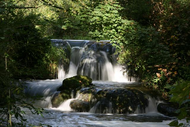 Waterfall on Itchen Navigation. Looking N from footbridge over the navigation, just north of pumping station.